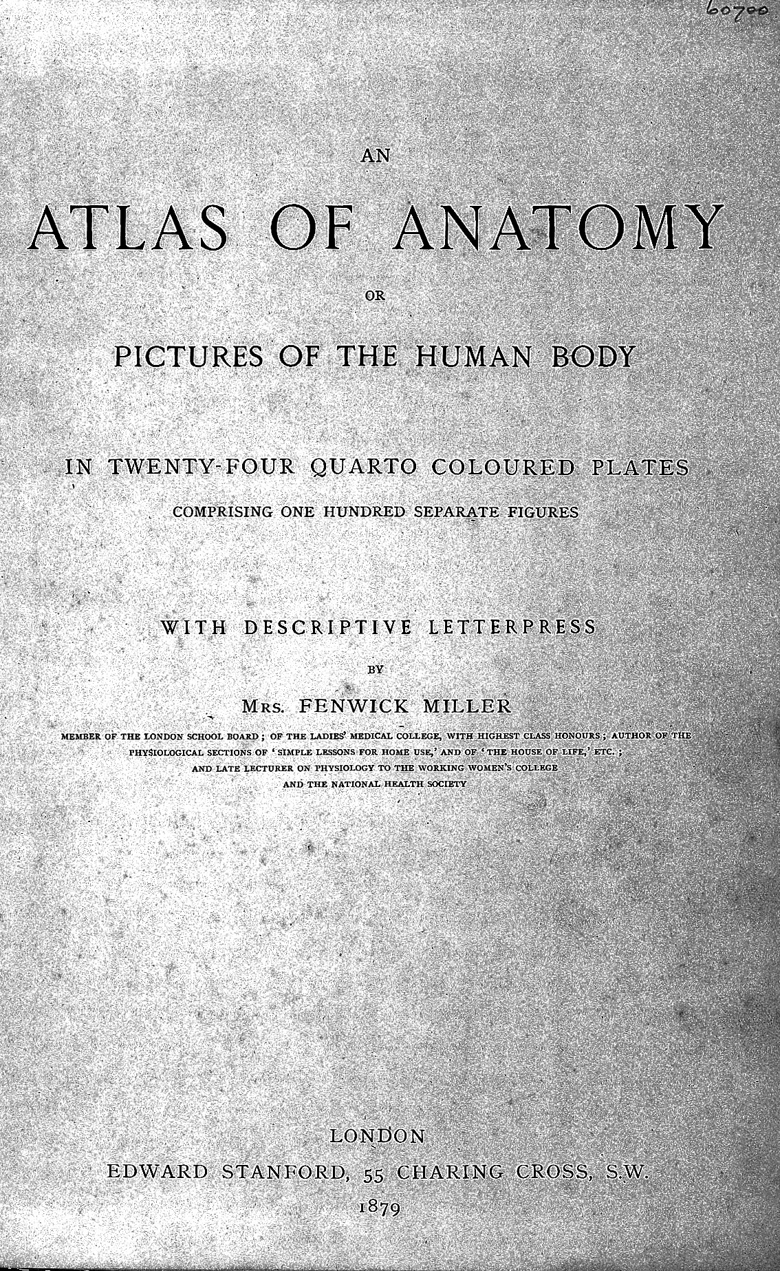 Title page. General Collections Keywords: ATLAS; human anatomy; Florence Fenwick Miller